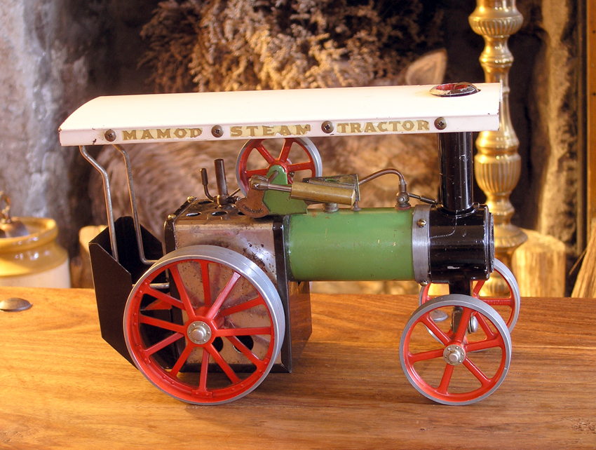 A shot taken indoors of an early Mamod TE1 tractor on an attractive wooden table.